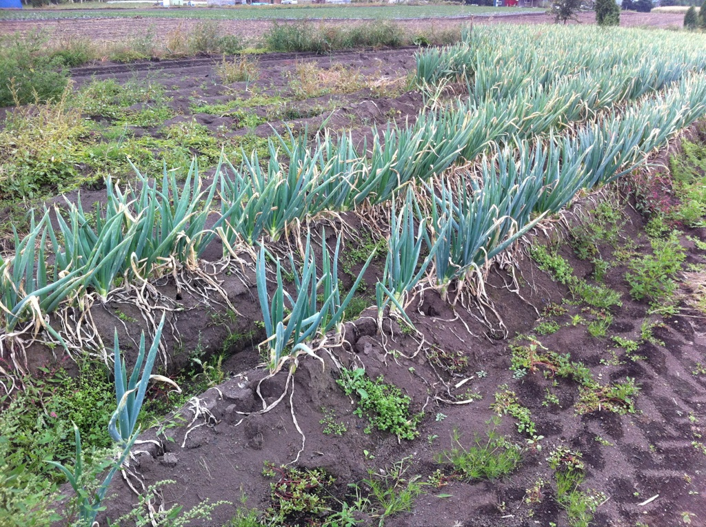 Posted by